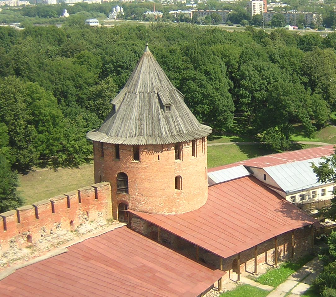 Fiodorovskaya tower in Detinets. Veliky Novgorod